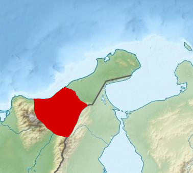 Padilla Province in 1884